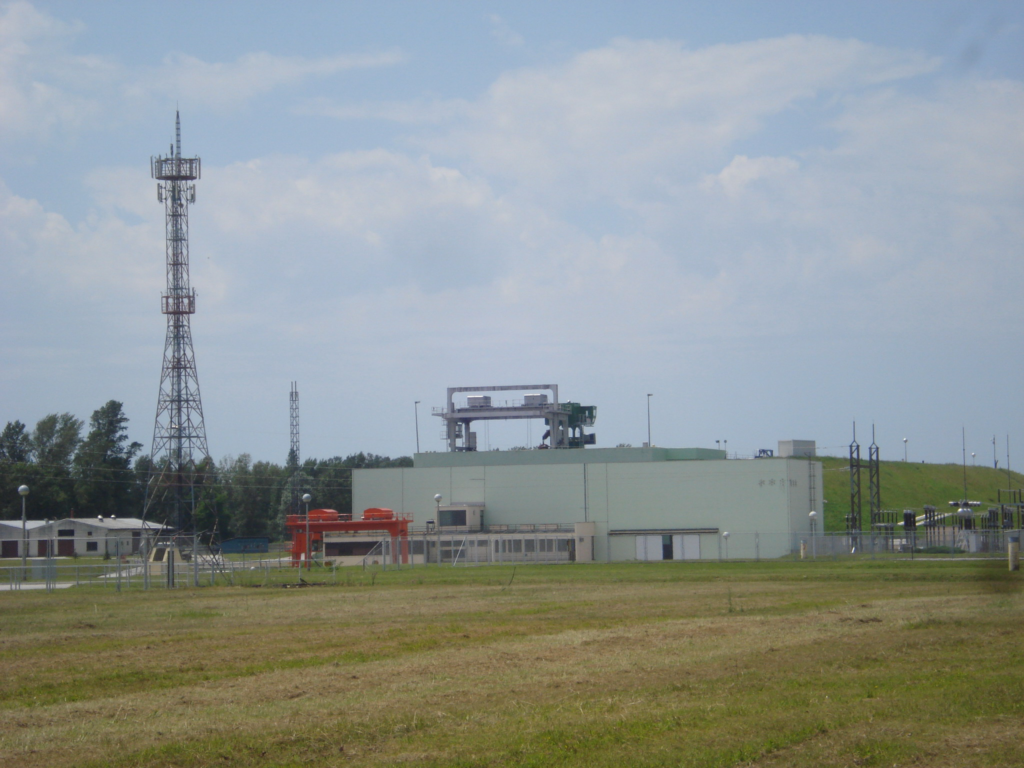 Čakovec Hydroelectric Power Plant - east viewHrvatski: Hidrocentrala Čakovec ili Hidroelektrana Čakovec (skraćeno HE Čakovec) - istočna strana